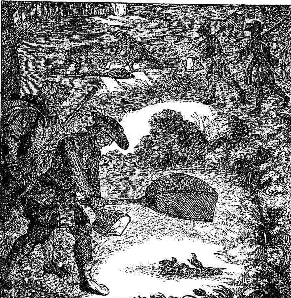 Lanciatoia - trapping larks with lanterns and long handle nets